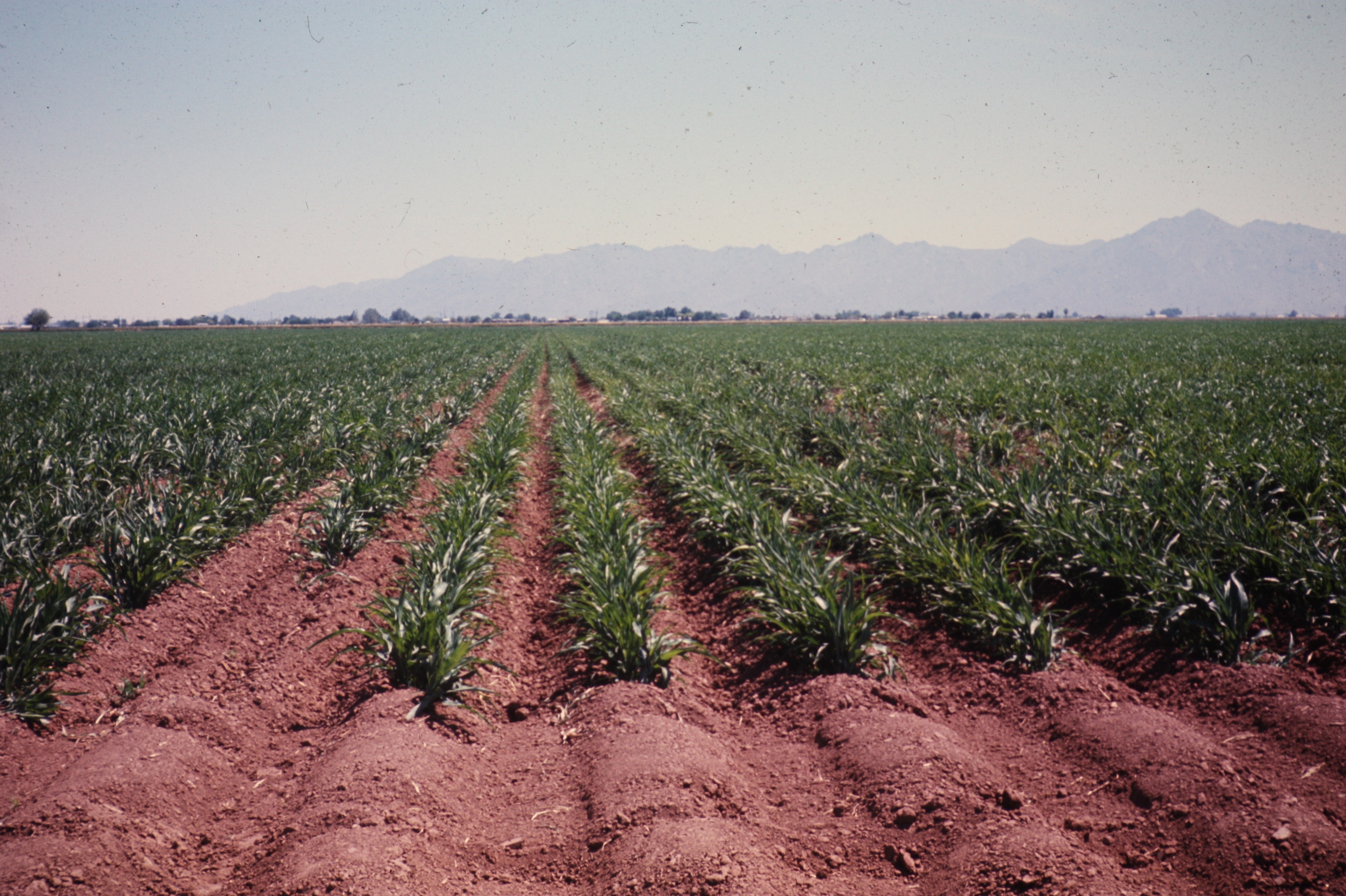 Taken in Madagascar in the mid-1970's. A sisal plantation in the south.